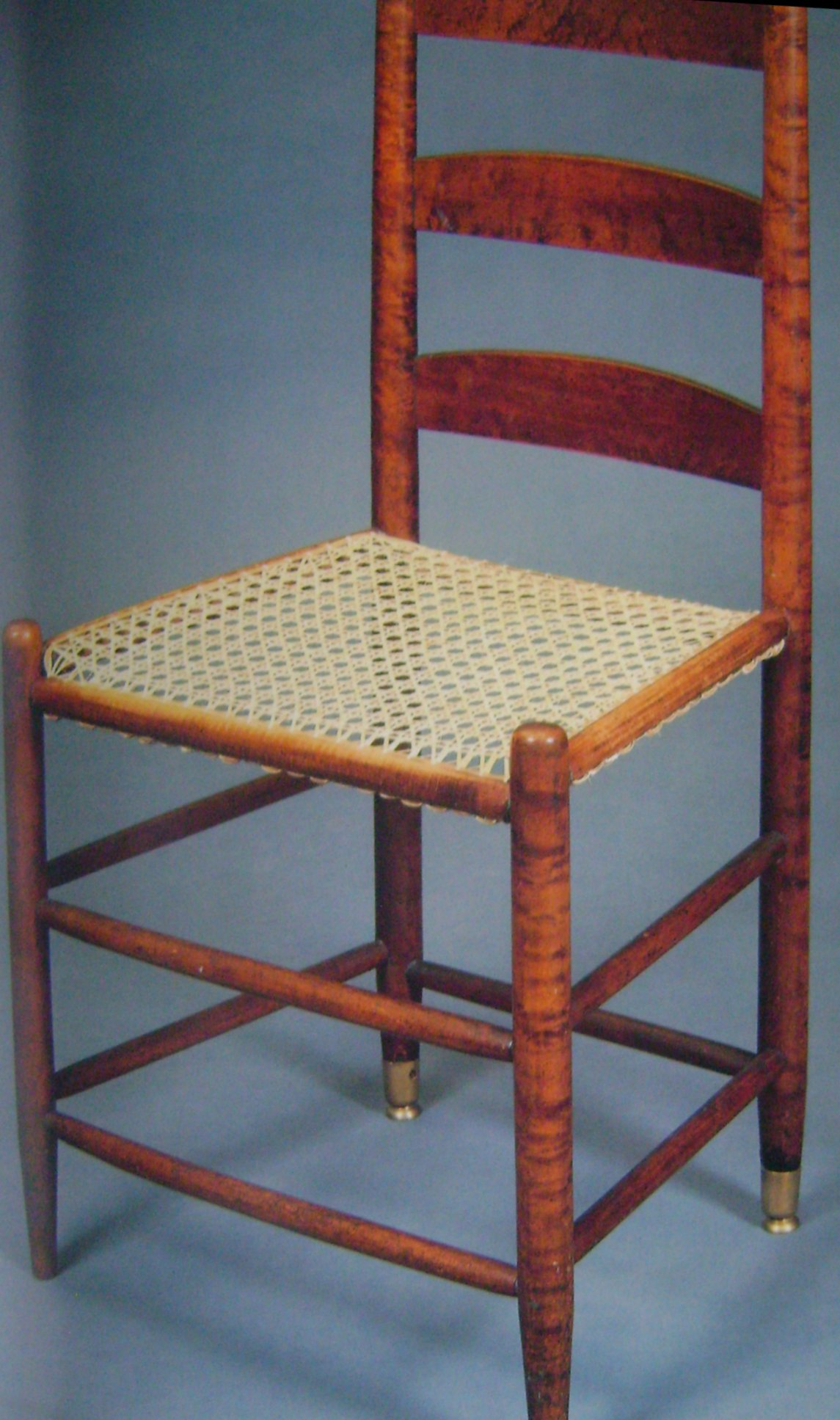 Shaker tilting chair with brass swivels on rear legs